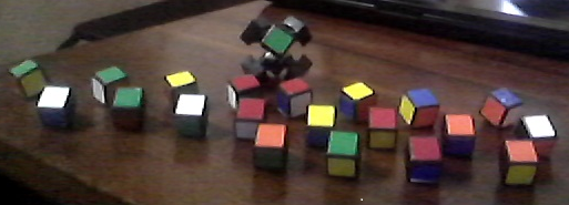 Disassembled Rubik's Cube on table.